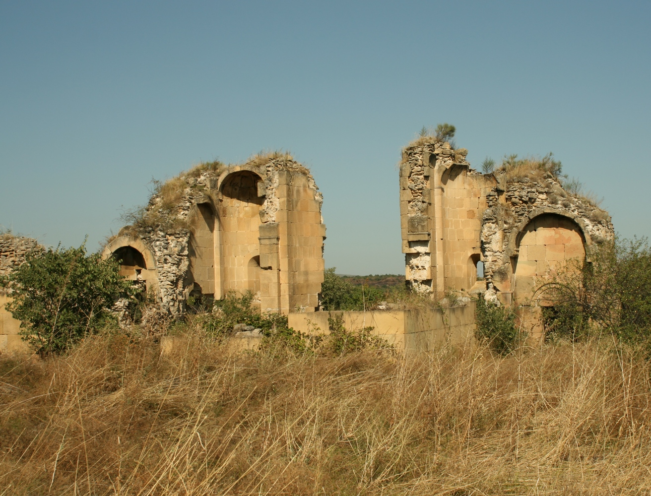 Samshvilde Sioni church. Ruins